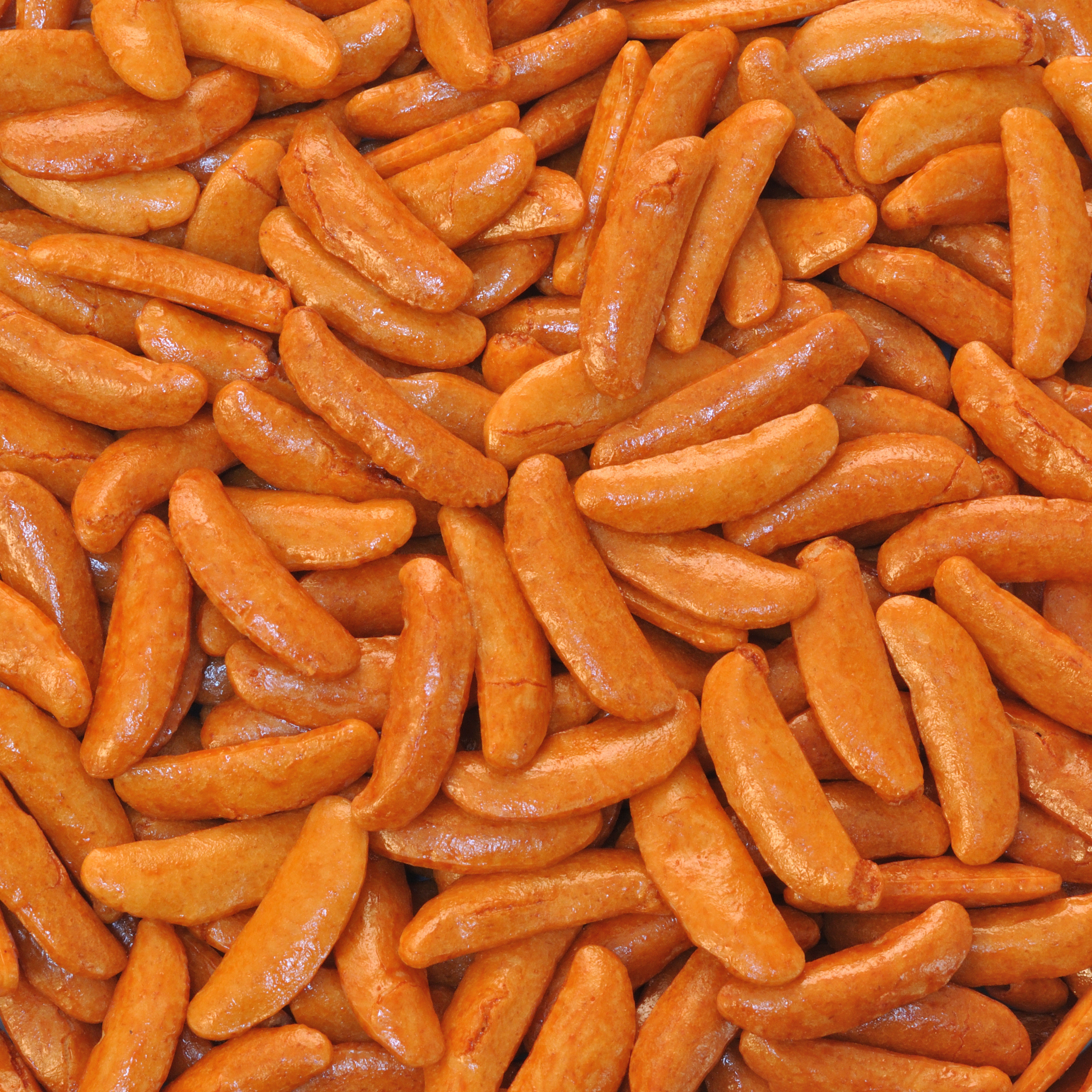 Kakinotane.